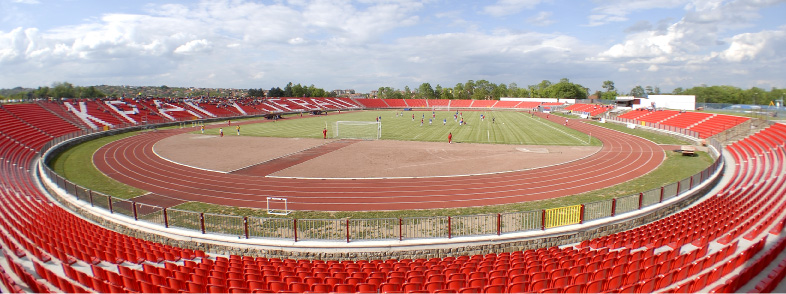 FC Šumadija Radnički 1923